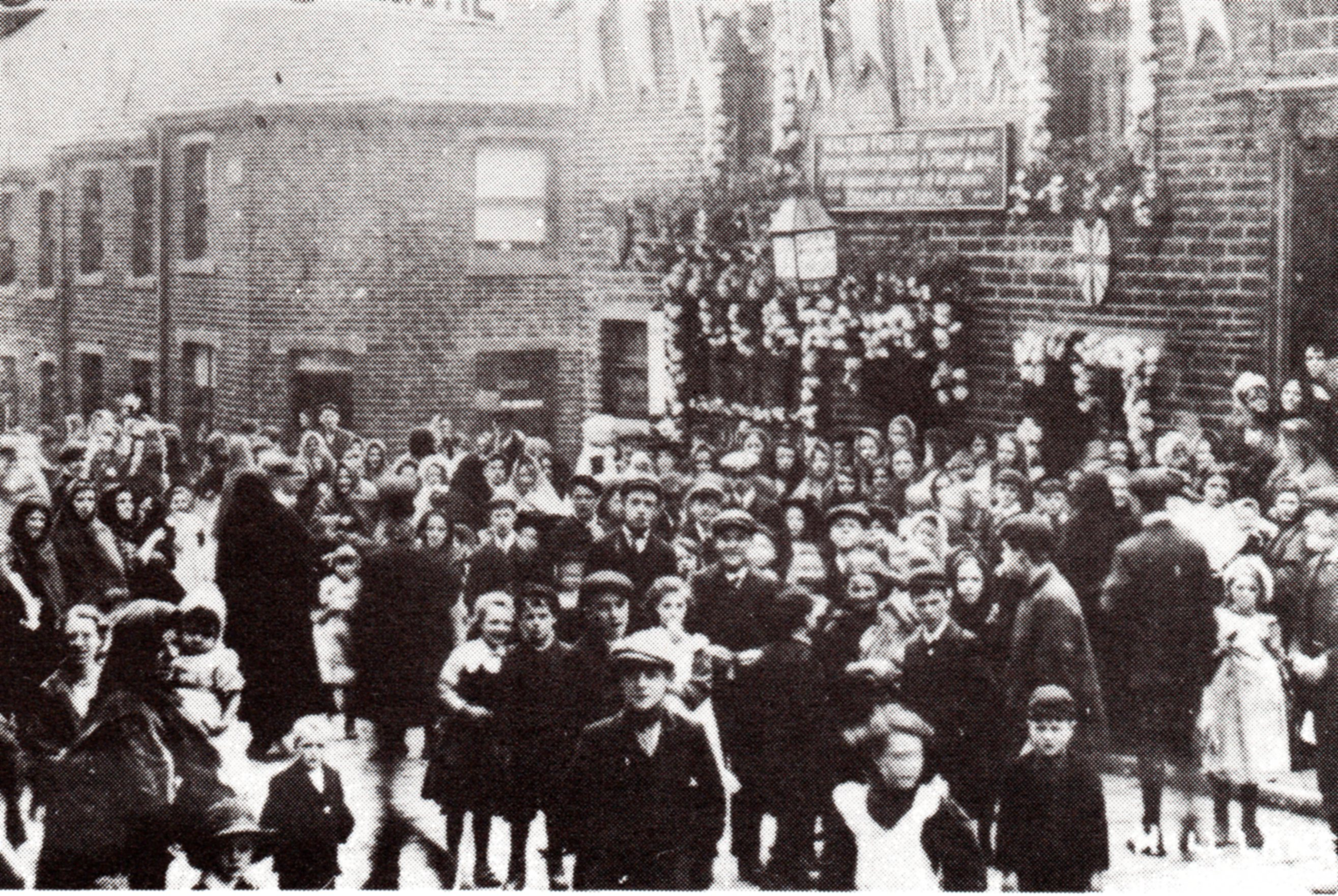 Photograph of Hall Lane about 1910 - August- celebrations for Bowling Tide (Bradford holidy) Week. Other information My mother was a members of the East Bowling History Workshop. She may have provided them with a copy of the Photo. She gave me a copy of the booklet in 1978